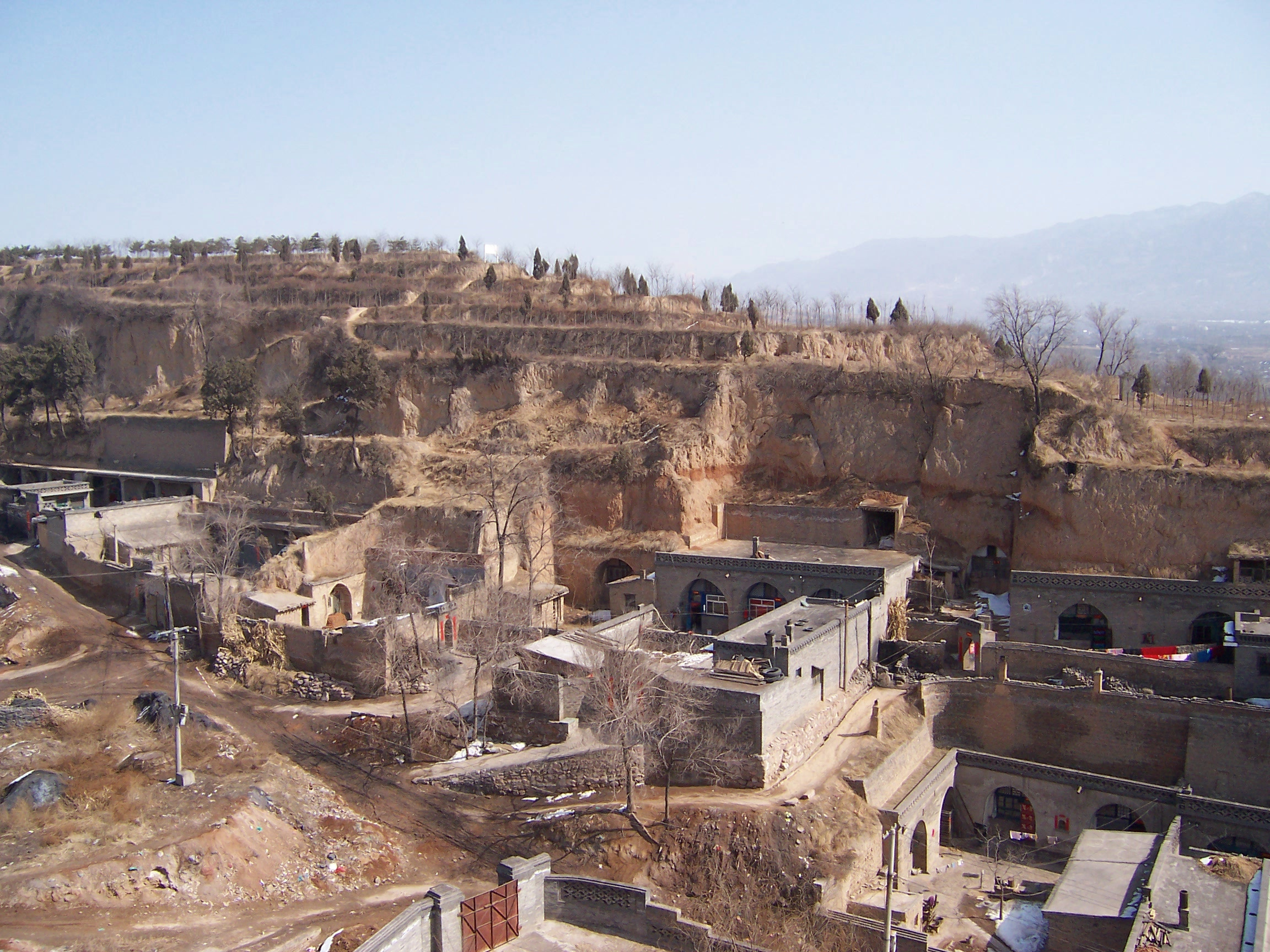 Traditional cave houses (and barns), alongside Wang Family Grand Courtyard (王家大院), Lingshi County, Province Shanxi, China.